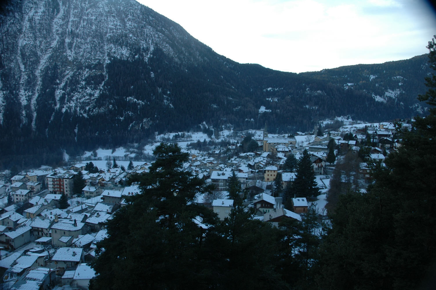 Panorama of Brusson (AO) - Italy